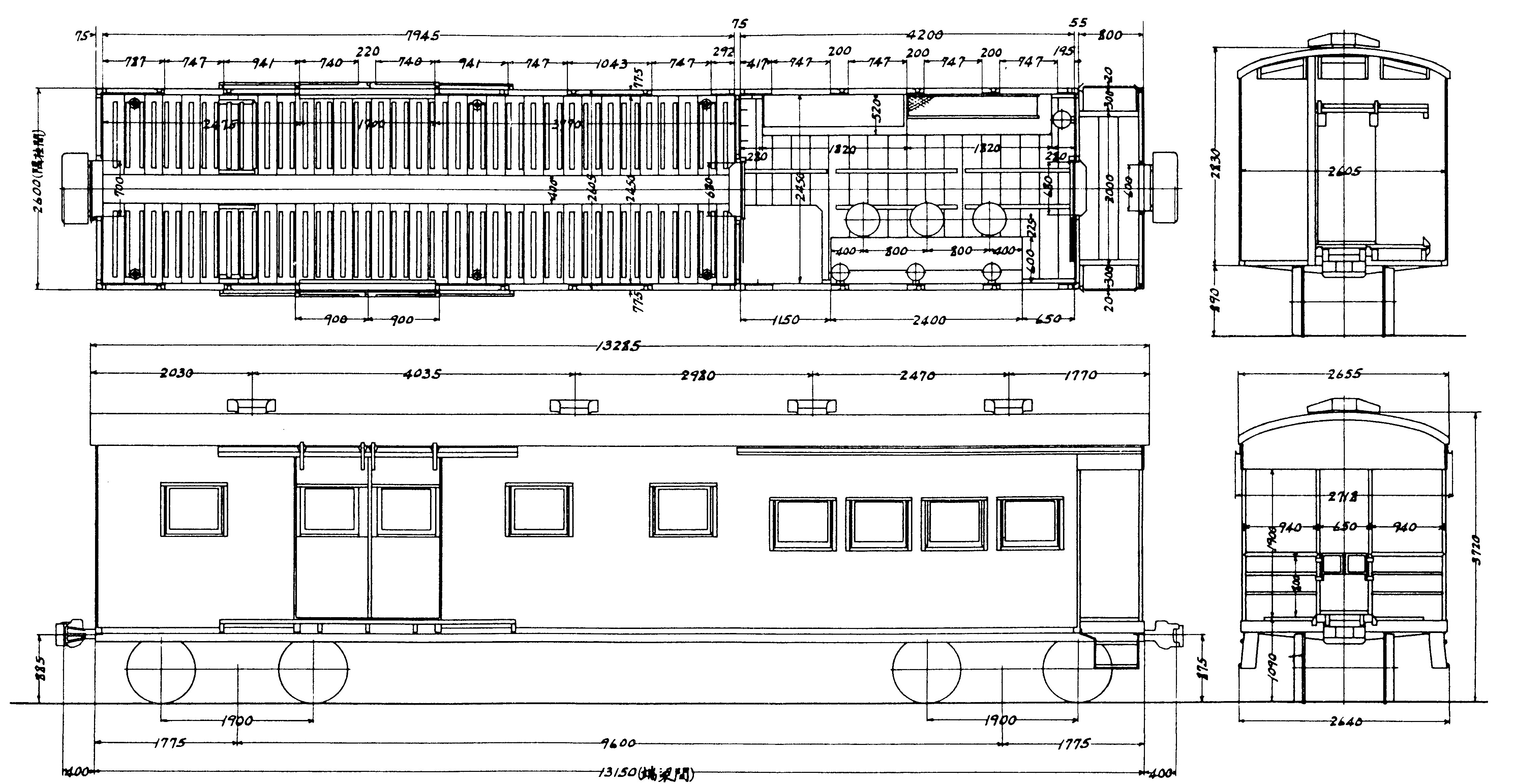 Type drawing of JNR's Class Wamufu1 freight car